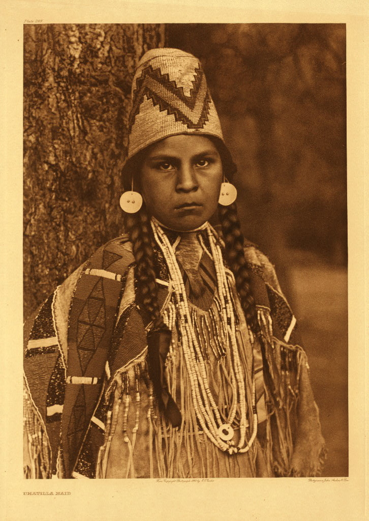 Umatilla maid